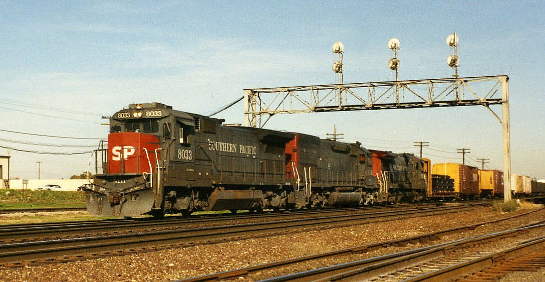 SP 8033, a GE Dash 8-39B, leading an EMD SD40T-2 and a second GE locomotive on a westbound train through Eola, Illinois (just east of Aurora).